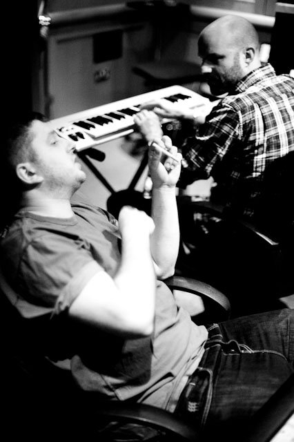 Dom Search working with Plan B at RAK studios, St. John's Wood, London.